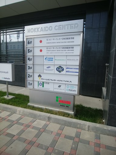 Directory Board of Hokkaido Center in Yuzhno-Sakhalinsk, which hosts Consulate-General of Japan